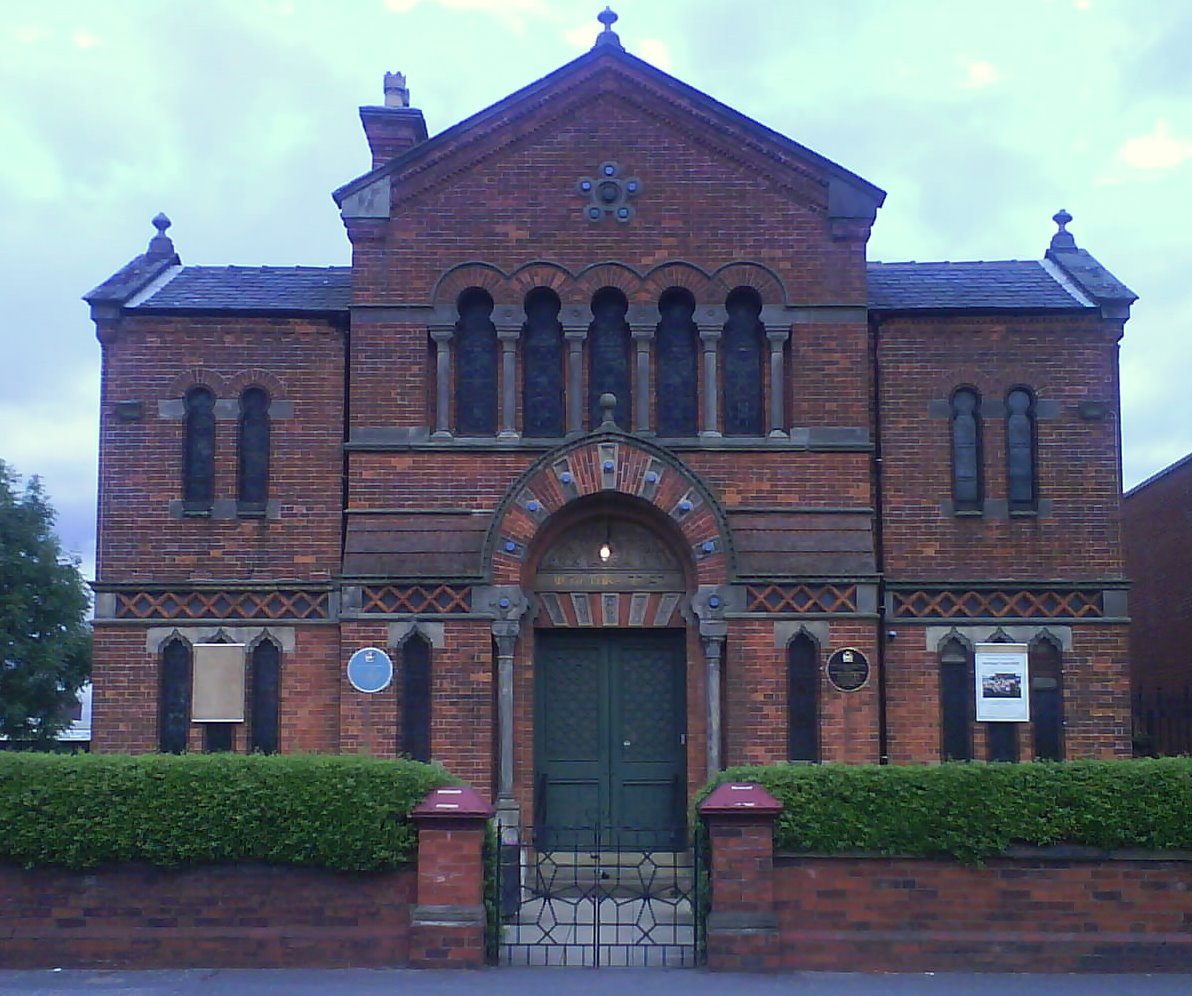 Jewish Museum, 190 Cheetham Hill Road, Manchester, seen from the west